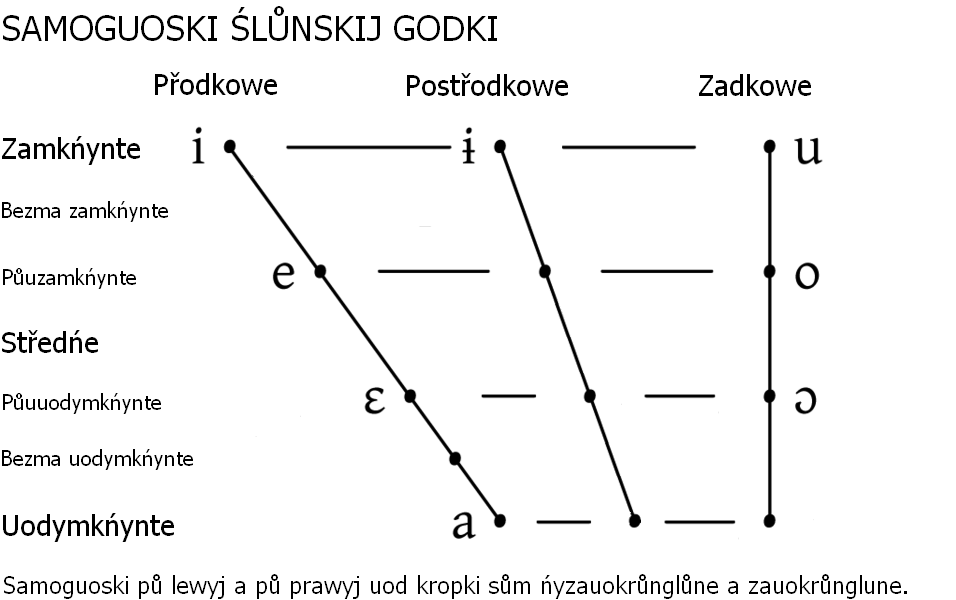 Vowels of the Silesian language.